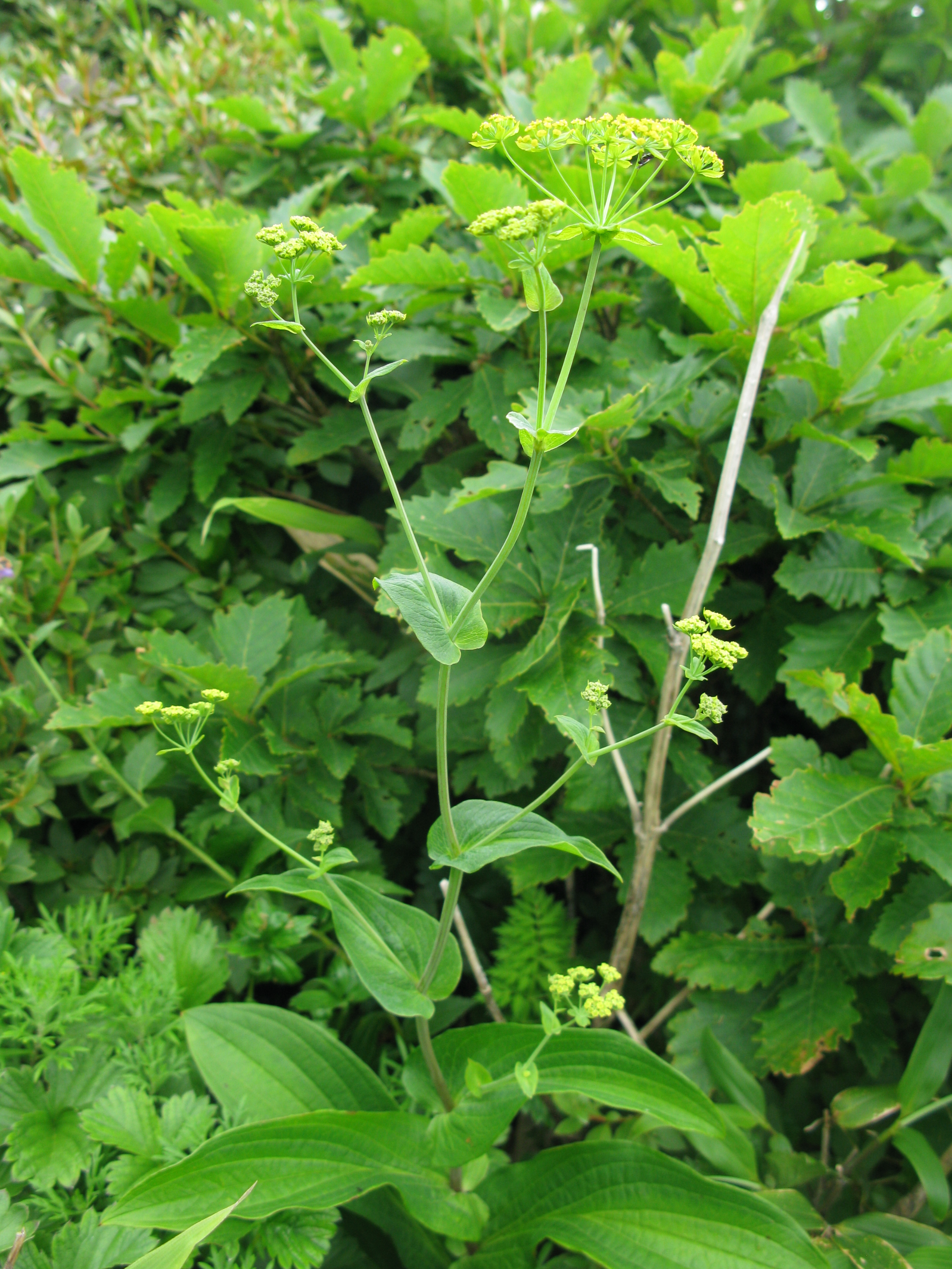 Bupleurum longiradiatum var. elatius, Mt. Bandaisan, Fukushima pref., Japan